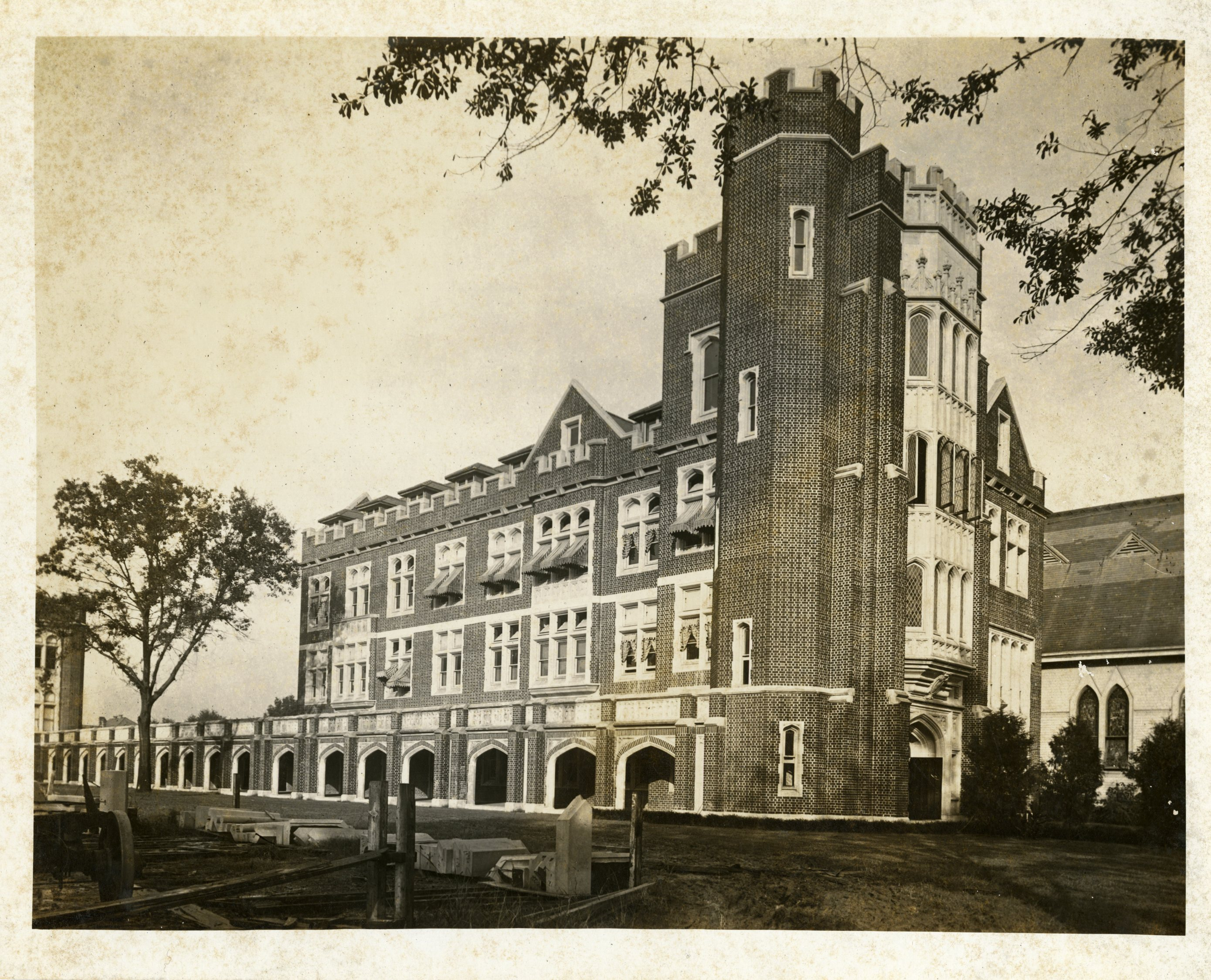 Loyola University New Orleans Thomas Hall